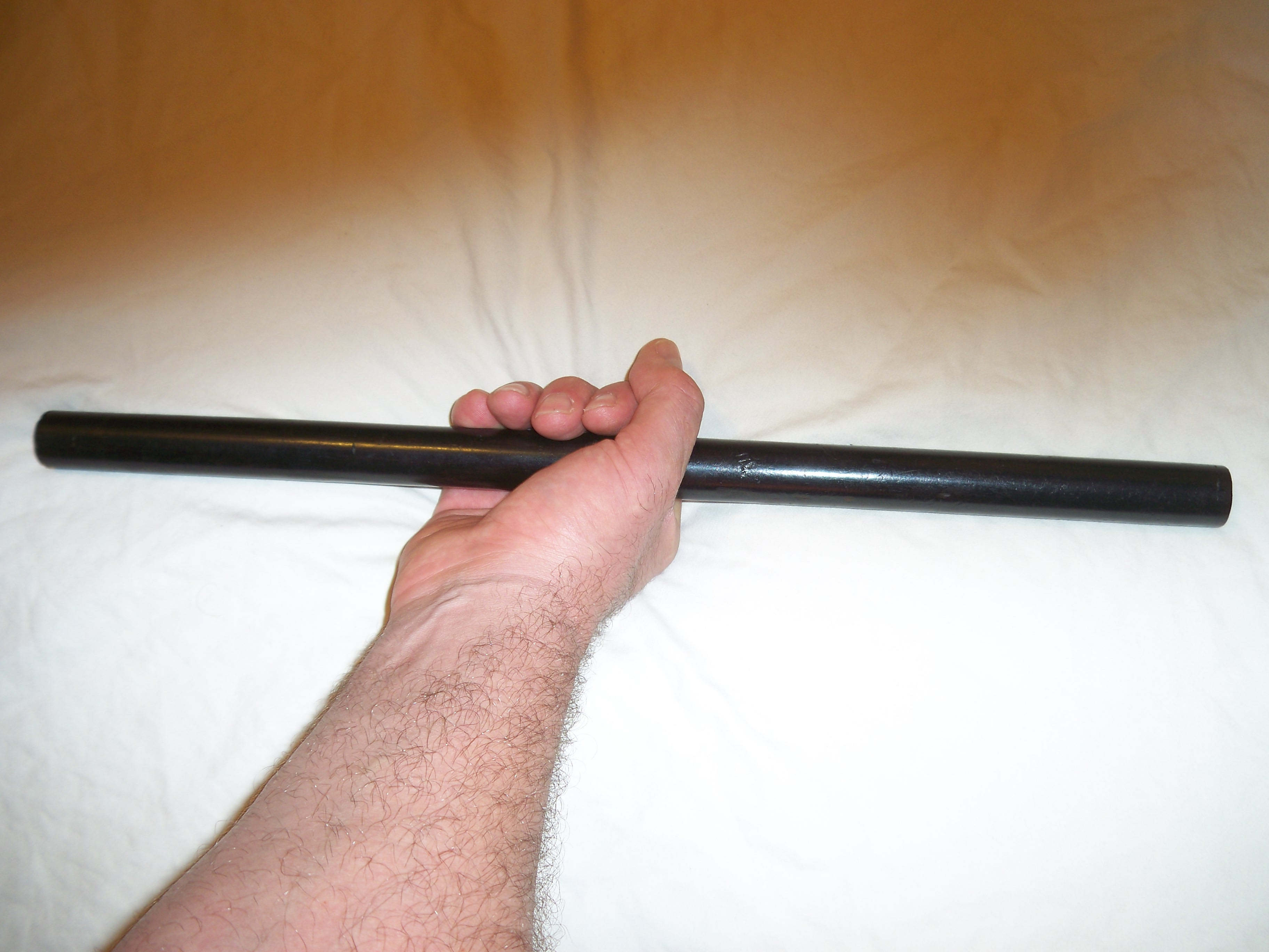 Antique Japanese tanbo, a 18 inch long hard wood martial arts weapon.